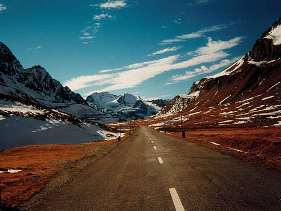 Originally from Gebruiker:Idéfix